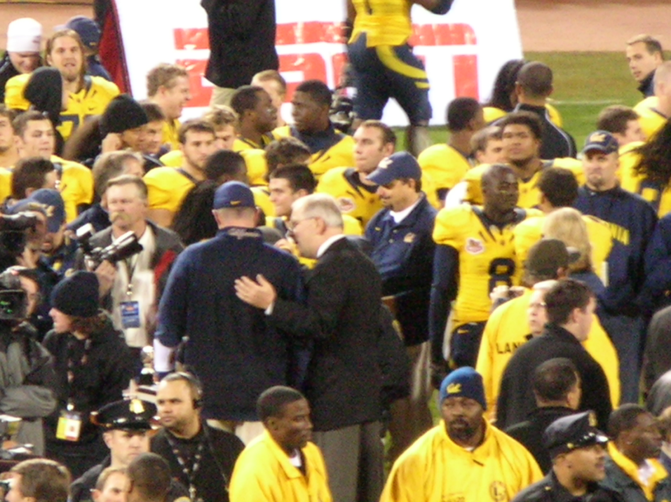 Cal head coach Jeff Tedford accepts the 2008 Emerald Bowl trophy from Emerald Bowl Executive Director Gary Cavalli following the Golden Bears' victory over the Miami Hurricanes 24-17.